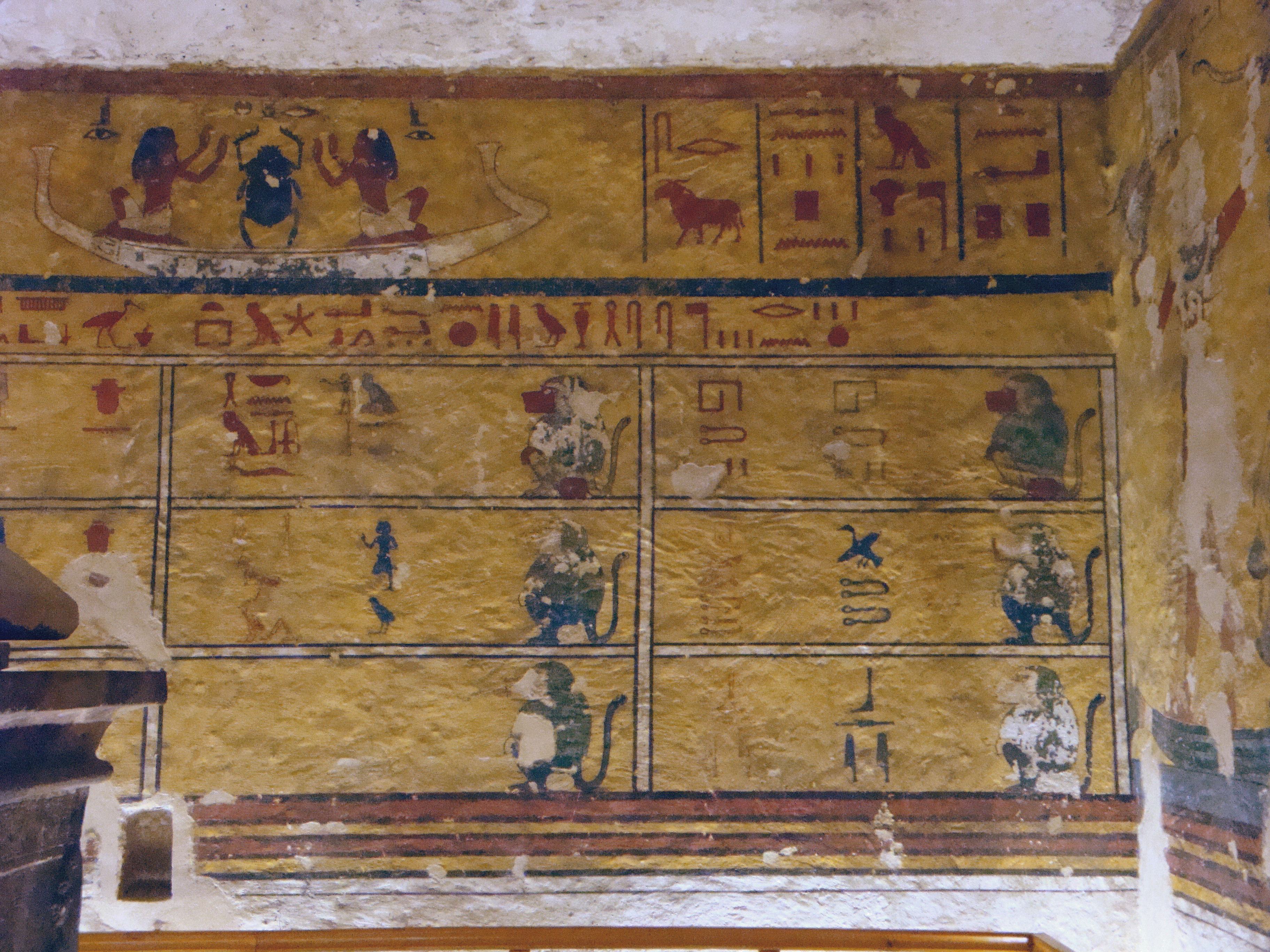 A picture of Western Valley Tomb No.23 or WV23. This is the royal tomb of pharaoh Ay, the penultimate or second last ruler of the 18th dynasty of Egypt. He succeeded Tutankhamun and ruled Egypt for at least 4 years according to Nakhtmin's stela which dates to Year 4 of this king's reign. Ay was an elderly state official when he assumed the throne: he had previously served under Akhenaten, Neferneferuaten and Tutankhamun. Ay also enjoyed the privilege of having a well decorated rock cut tomb constructed for himself at Amarna during Akhenaten's reign.